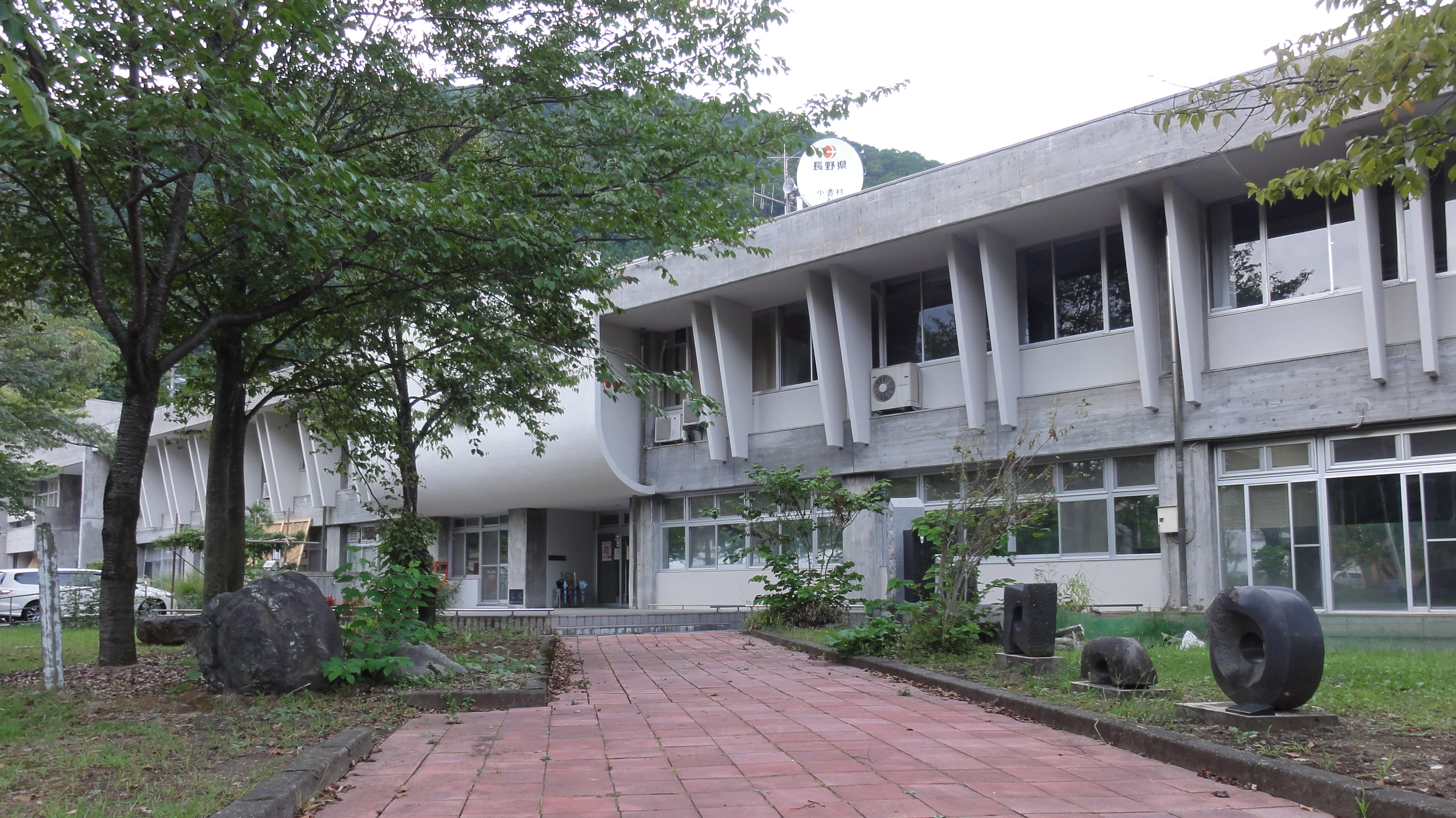 Otari village office,Nagano prefecture,Japan